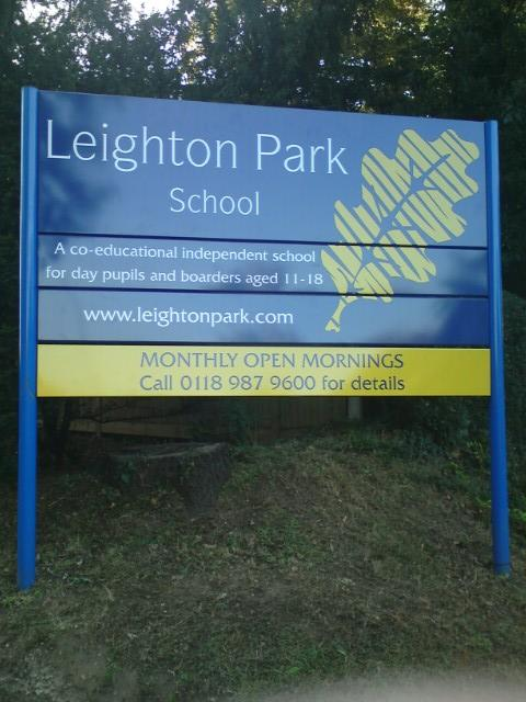 Sign outside Leighton Park School, Reading, England. Photograph by Jonathan Bowen.